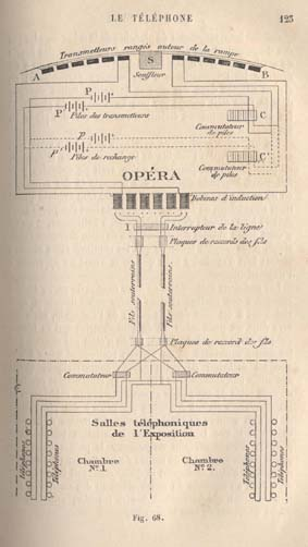 Théâtrophone. Plan device théatrophone at the Opera during the World Exhibition in Paris (1881).